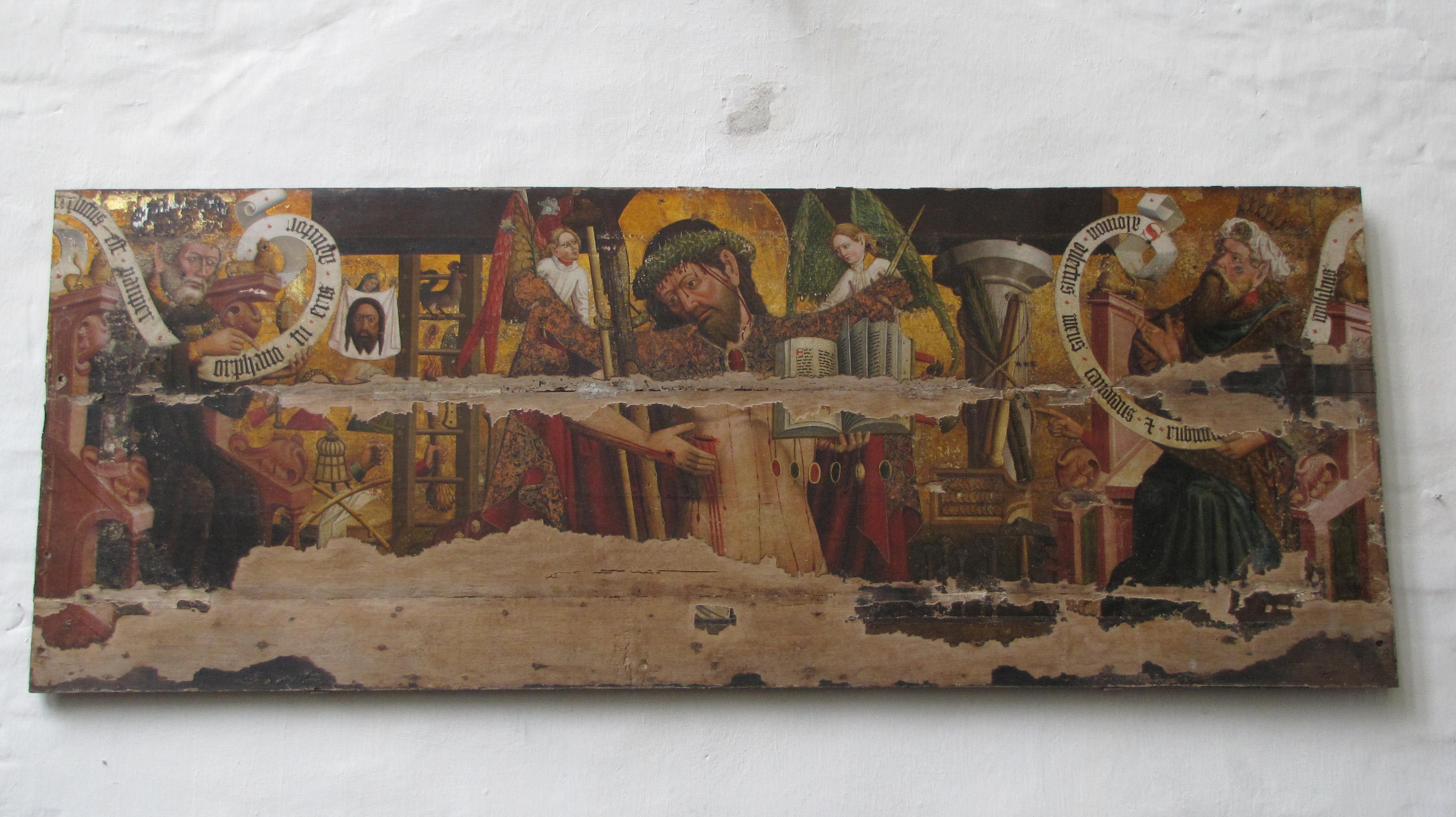 Gothic panel with Suffeirng Christ, Arma Christi and Kings David and Solomon